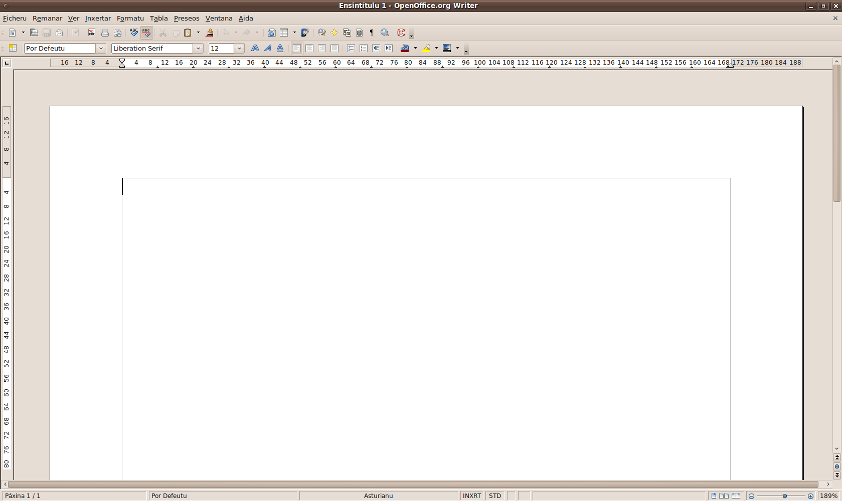 OpenOffice Writer 3.2 screenshot in asturian language